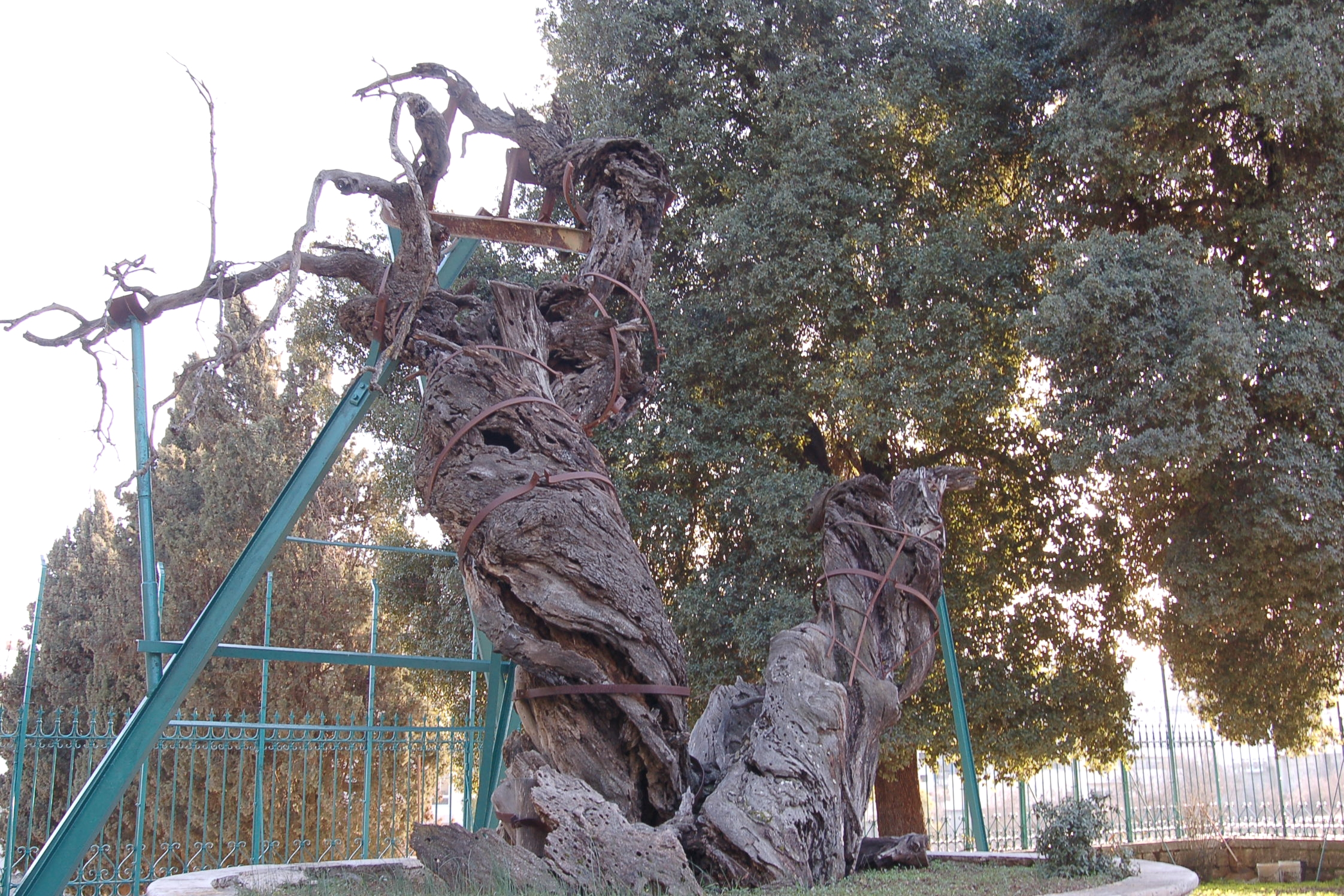 The Oak of Mamre (also called the Oak of Sibta), at Hirbet es-Sibte, two kilometres southwest of Mamre[2], also called The Oak of Abraham[3] is an ancient tree which, in tradition, is said to mark the place where Abraham entertained the three angels[4] or where Abraham pitched his tent. It is estimated that this oak is approximately 5,000 years old. The site of the oak was acquired in 1868 by Archimandrite Antonin (Kapustin) for the Church of Russia and the nearby Monastery of the Holy Trinity was founded nearby.[5] The site has since been a major attraction for Russian pilgrims before the revolution, and is the only functioning Christian shrine in the Hebron region. After the Russian Revolution, the property came under the control of the ROCOR. A long-standing tradition is that the Oak of Abraham will die before the appearance of the Anti-Christ. The oak has been dead since 1996 (Description from the Orthodox Wiki)